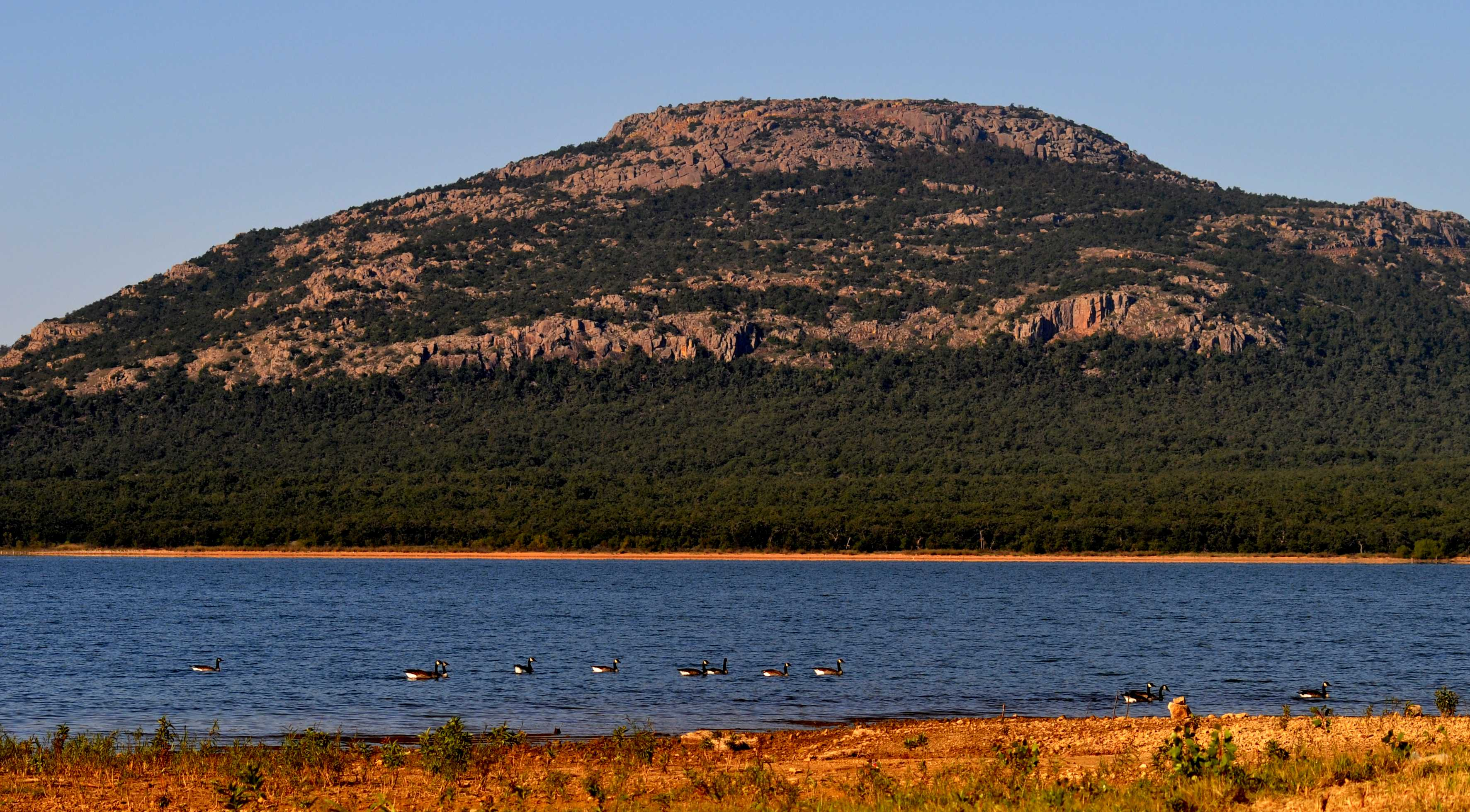 East shore of Lake Lawtonka showing Canada Geese and Mount Scott